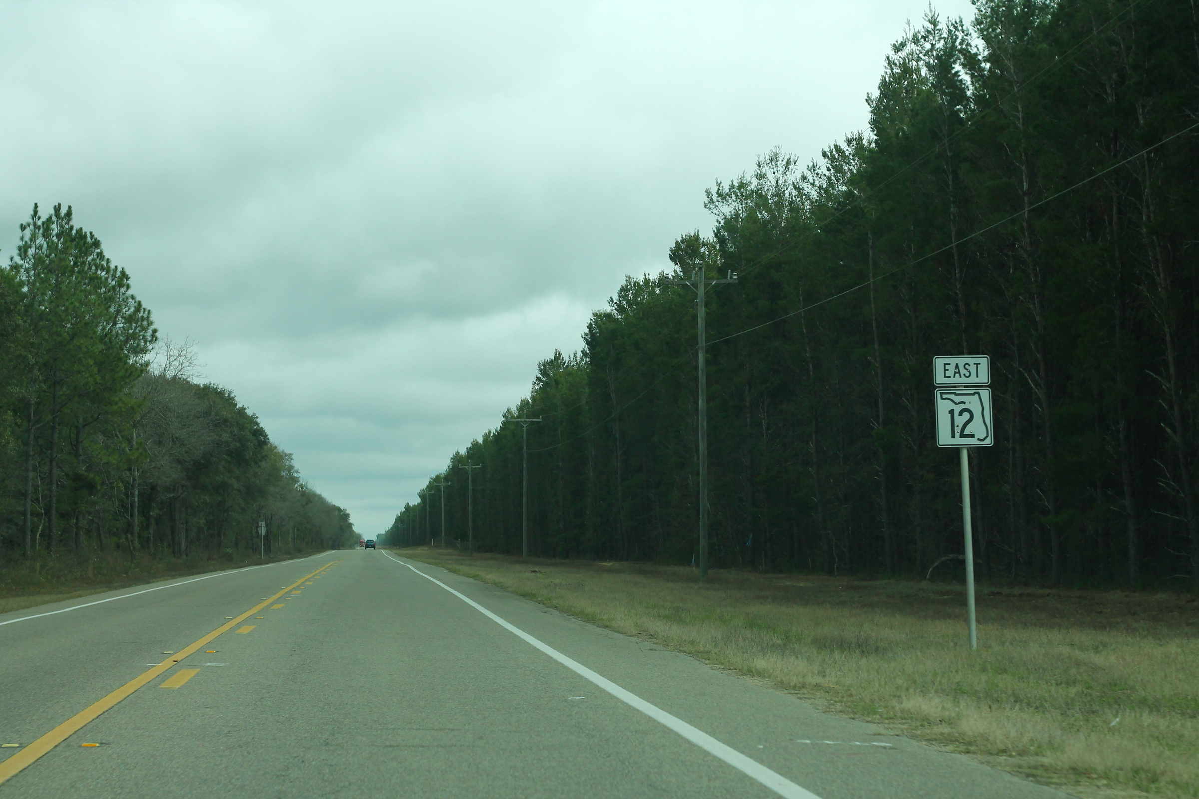 FL12 East Sign - Liberty County